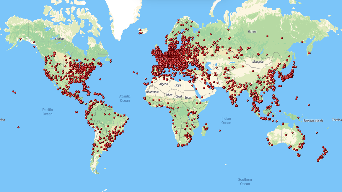 World zoo/mini zoo map